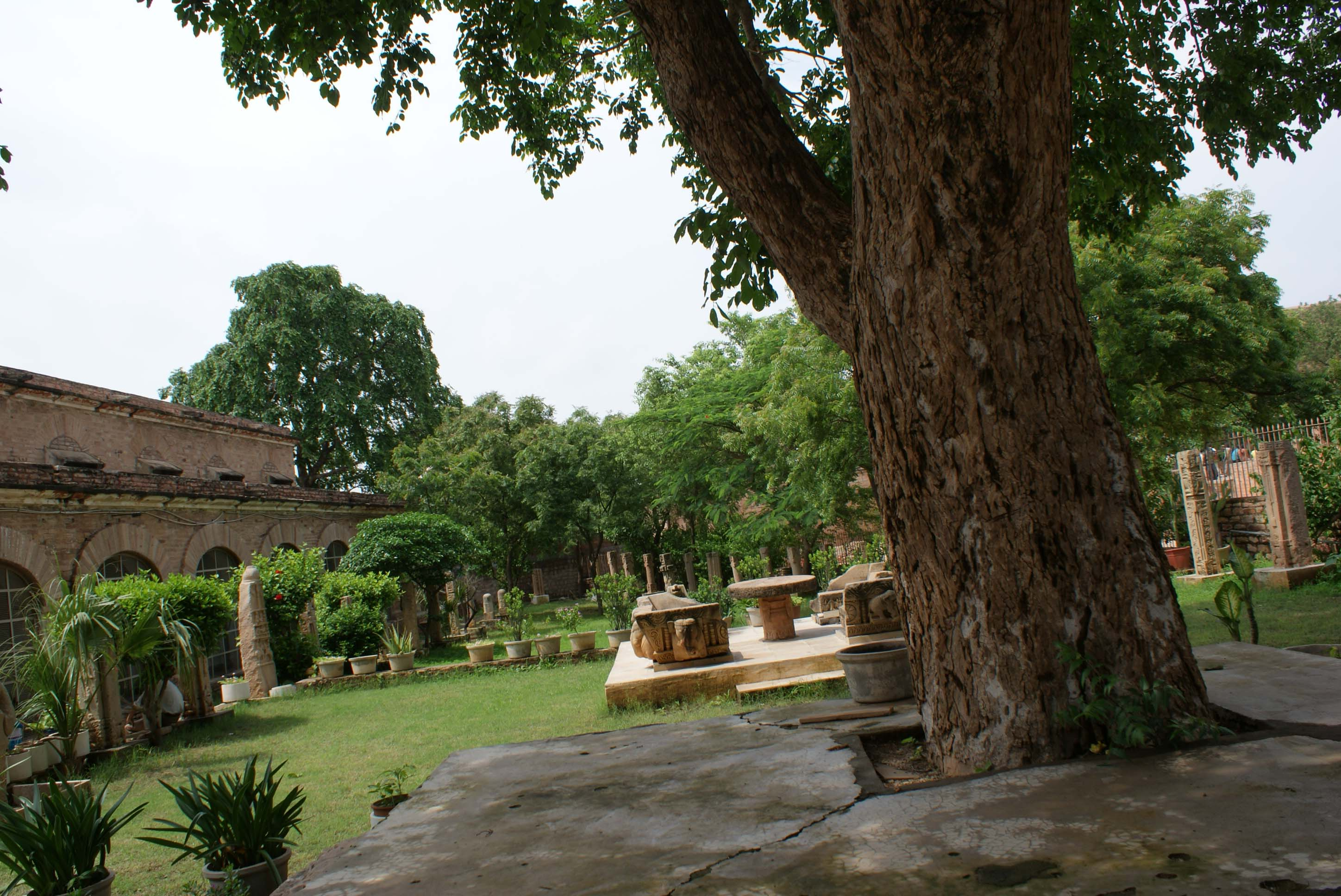 Gwalior Fort Archeologic Museum